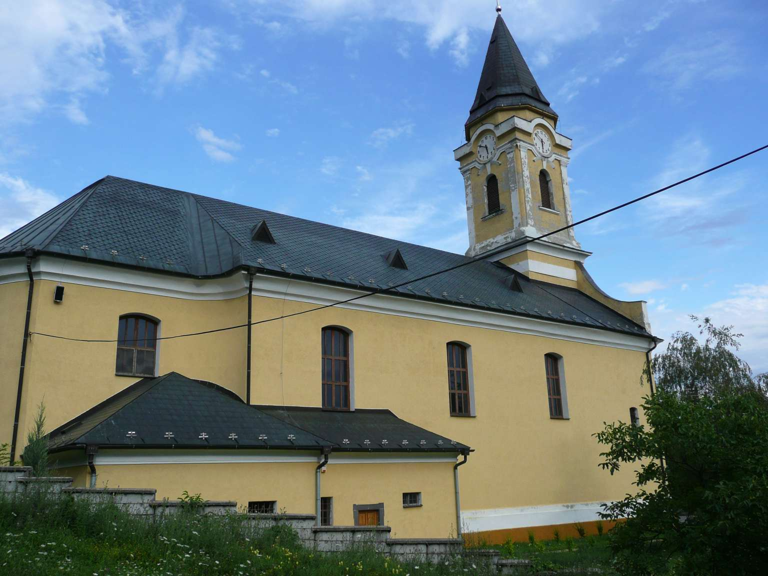 Holy Trinity Church, Rybnik